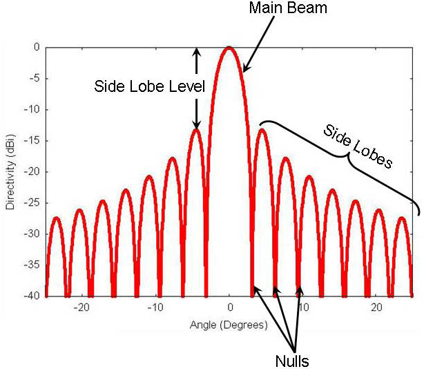 A typical antenna pattern with the maximum directivity normalized to 0 dB.